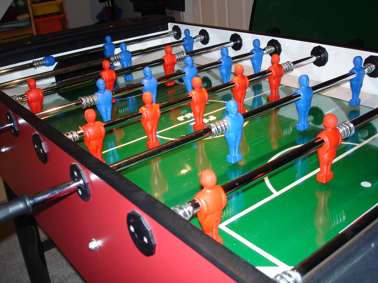 FAS brand Foosball Table. This photo was taken by me, Luke Rathbone.